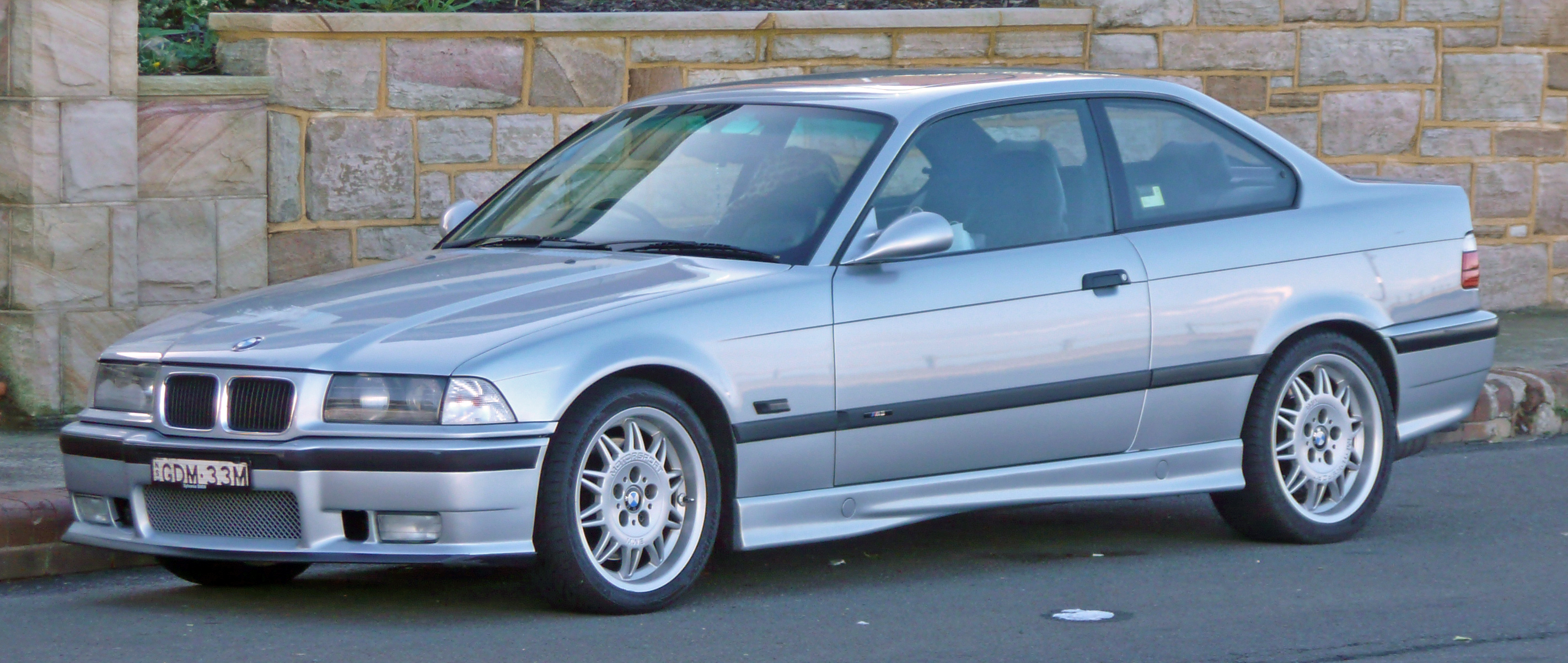 1995–1999 BMW M3 (E36) coupe. Photographed in Cronulla, New South Wales, Australia.